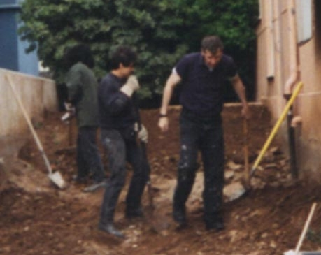 Rehabilitation Project Force unit at the Scientology Blue Building in Los Angeles, California